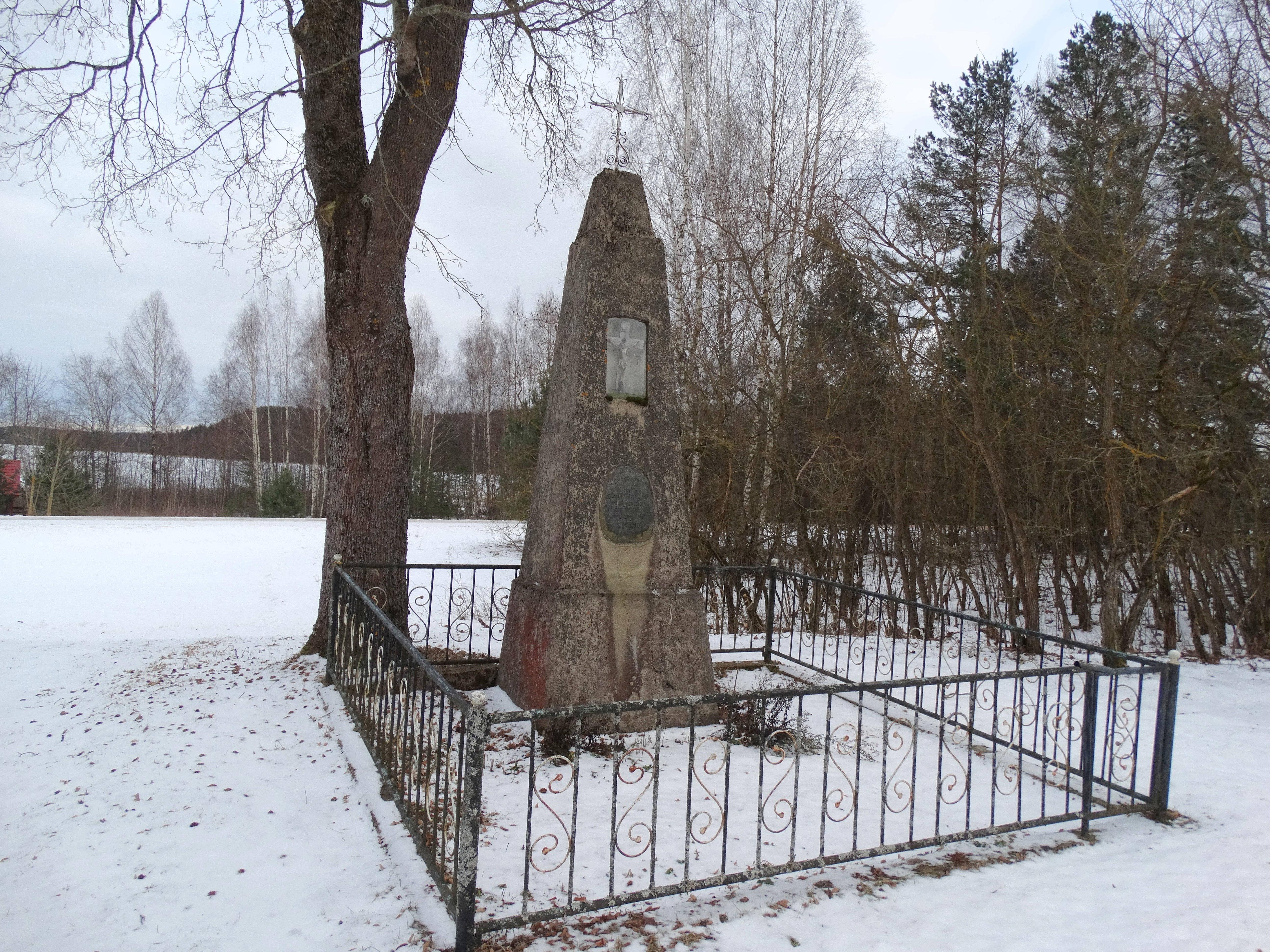 Monument to Vytautas the Great, Rėkučiai, Švenčionys district, Lithuania